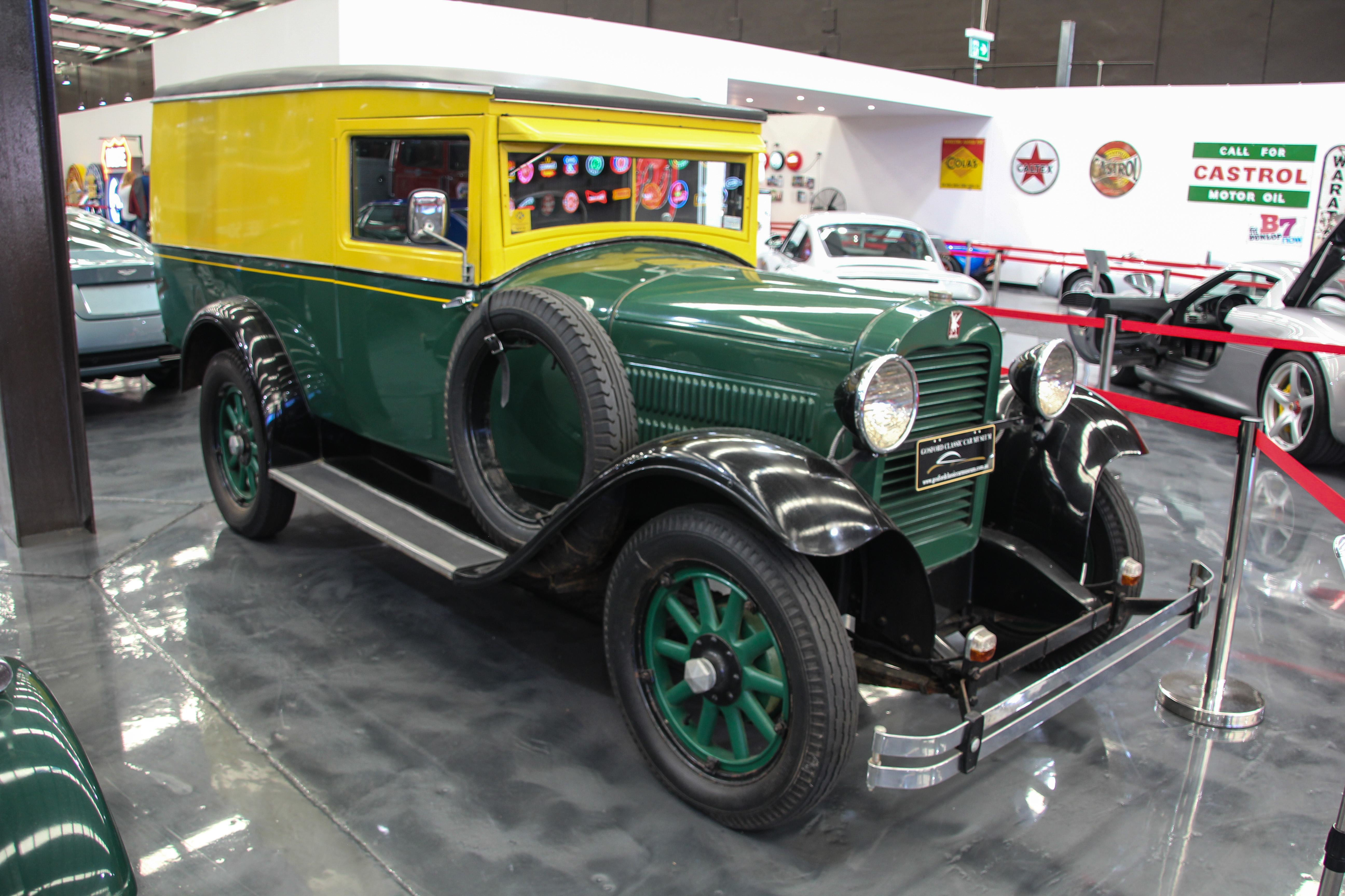 1929 Dover commercial van on display at Gosford Classic Car Museum on the Central Coast of New South Wales, Australia in May 2017